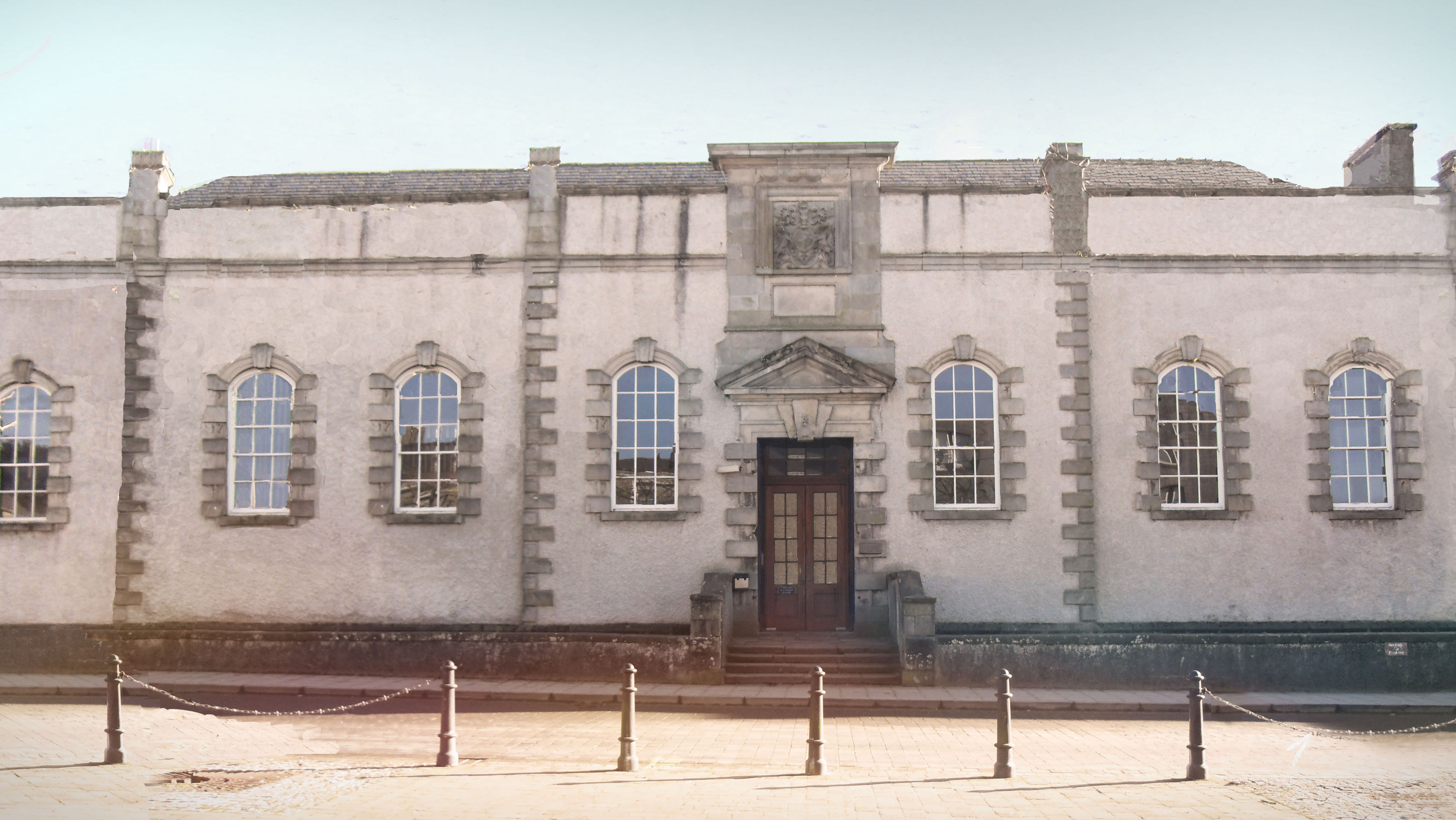 Lifford Old Courthouse front view, Lifford, Co. Donegal